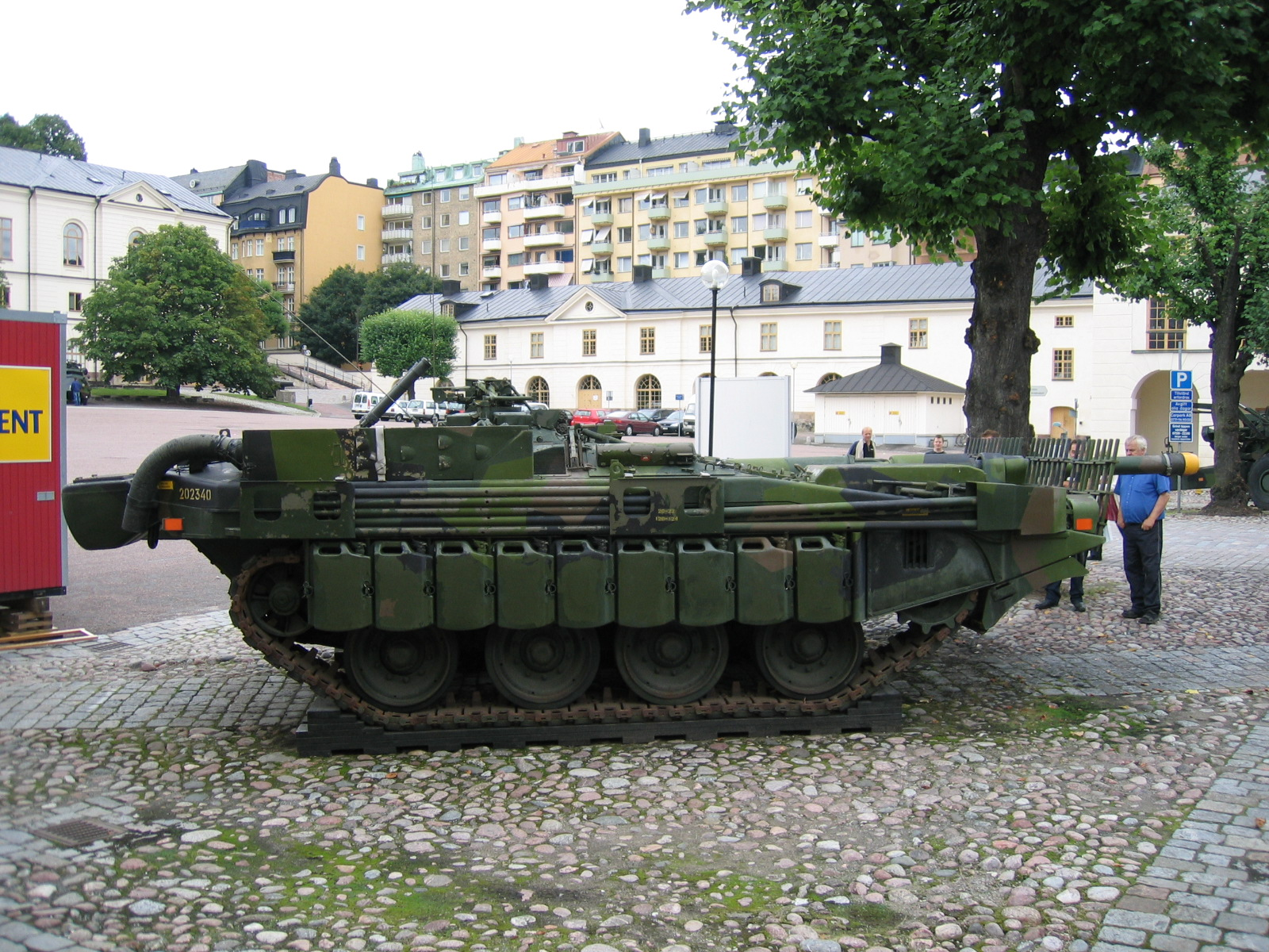 Stridsvagn 103 (Strv 103), or S-Tank from the Swedish Armémuseum in Stockholm.